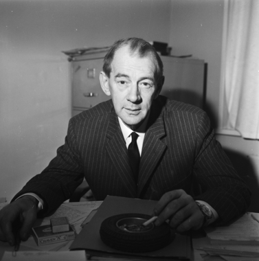 Otto Nielsen (1909–1982), Norwegian songwriter, cabaret artist and radio personality. Photo by Rigmor Dahl Delphin in the collections of Oslo Museum via DigitaltMuseum.